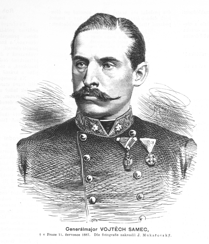 Portrait of Vojtěch Samec (1832-1887), Czech officer in the Austrian army and a politician.